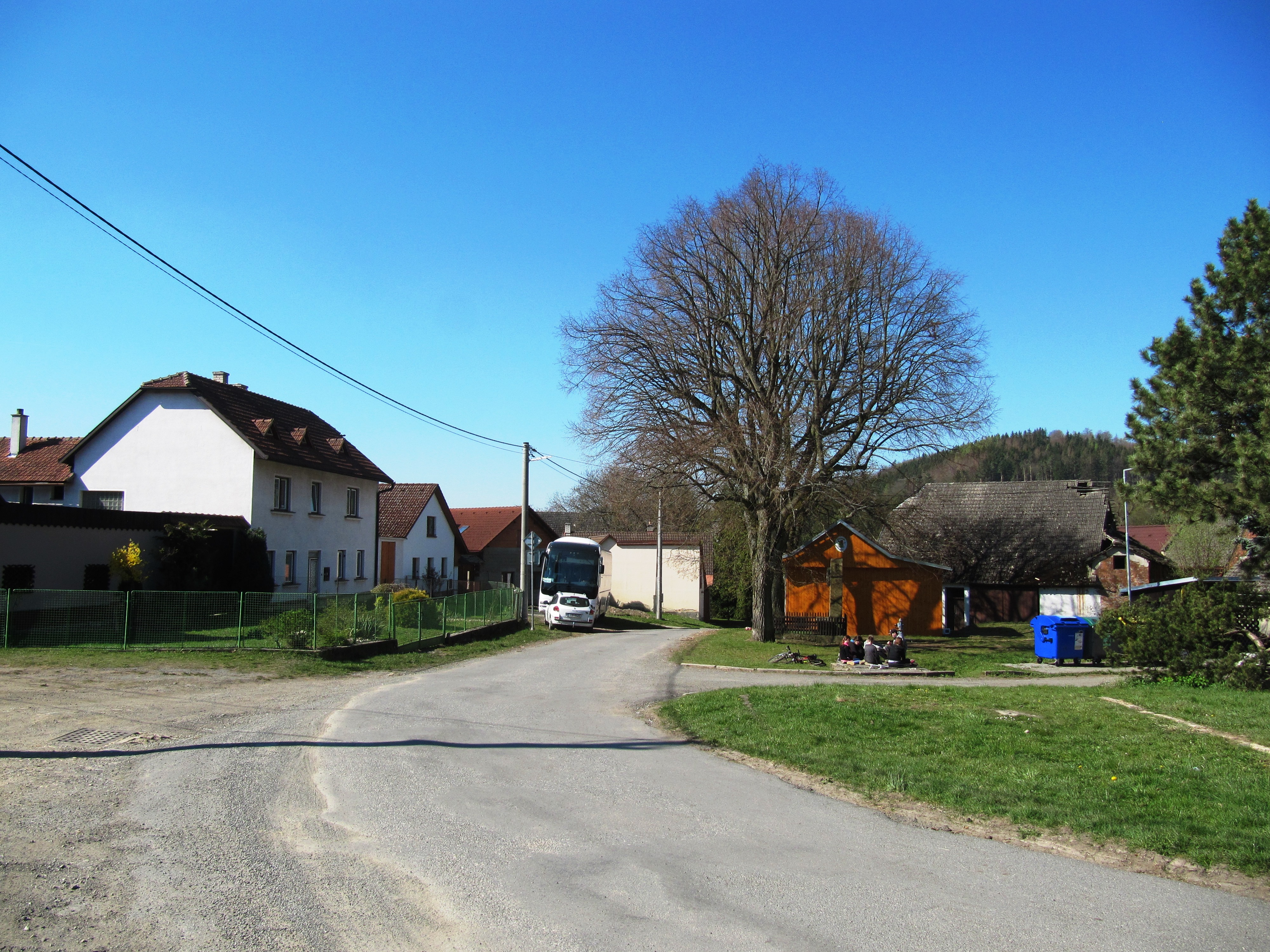 Věstín, Žďár nad Sázavou District, Czechia, part Bolešín.